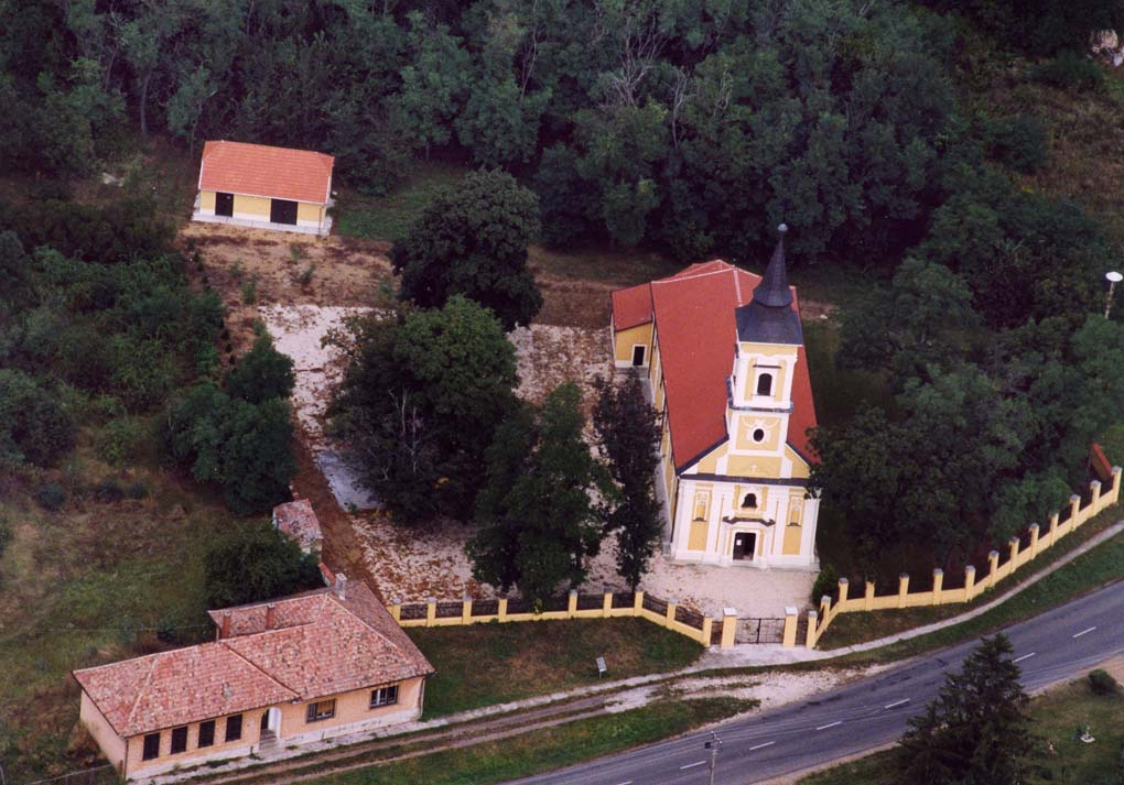 Páduai Szent Antal templom (Tétszentkút), Hungary, aerial photography